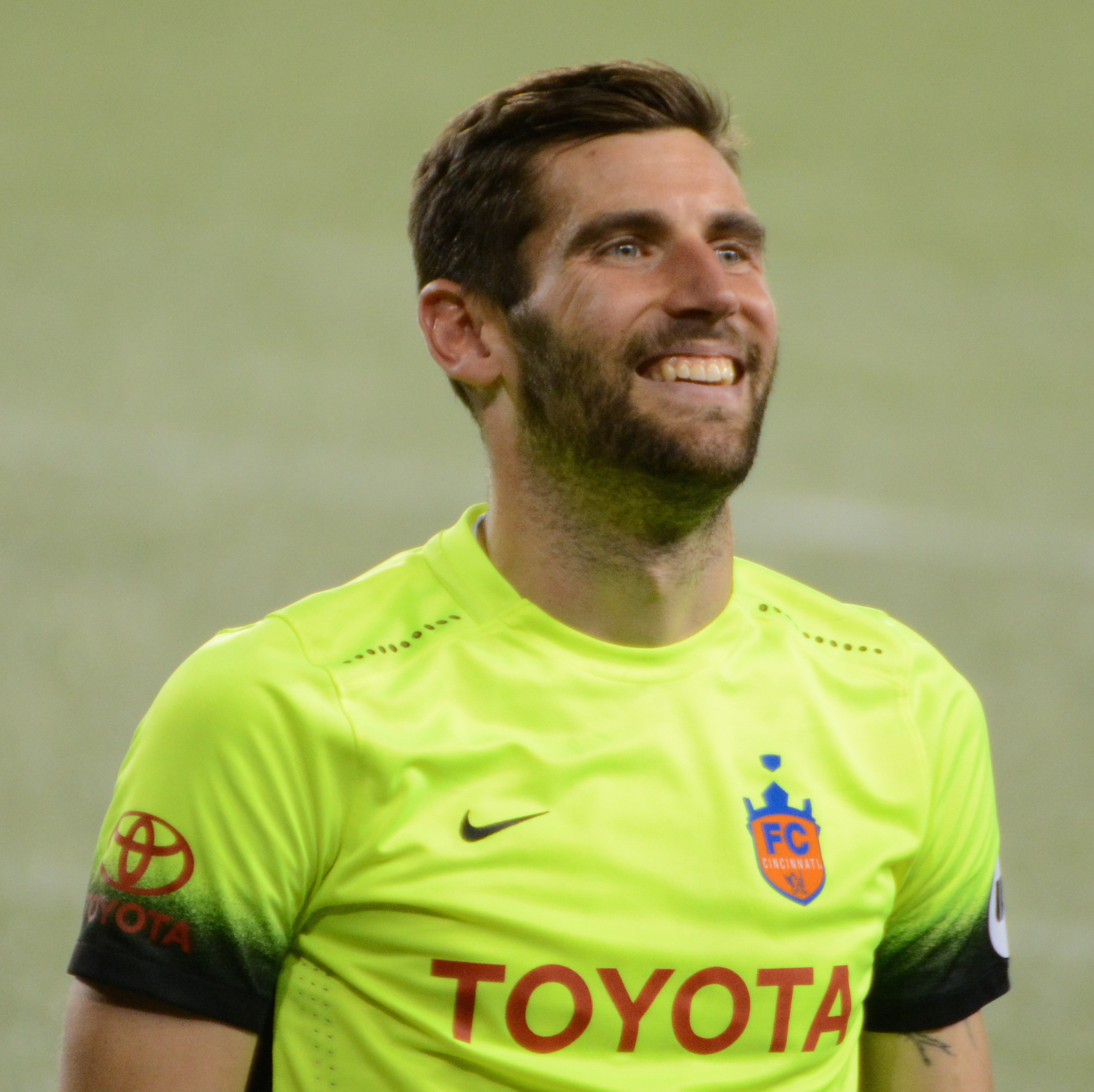 Mitch Hildebrandt after the match. Taken at a 2017 Lamar Hunt U.S. Open Cup match between FC Cincinnati and Chicago Fire SC at Nippert Stadium in Cincinnati, Ohio on June 28, 2017.